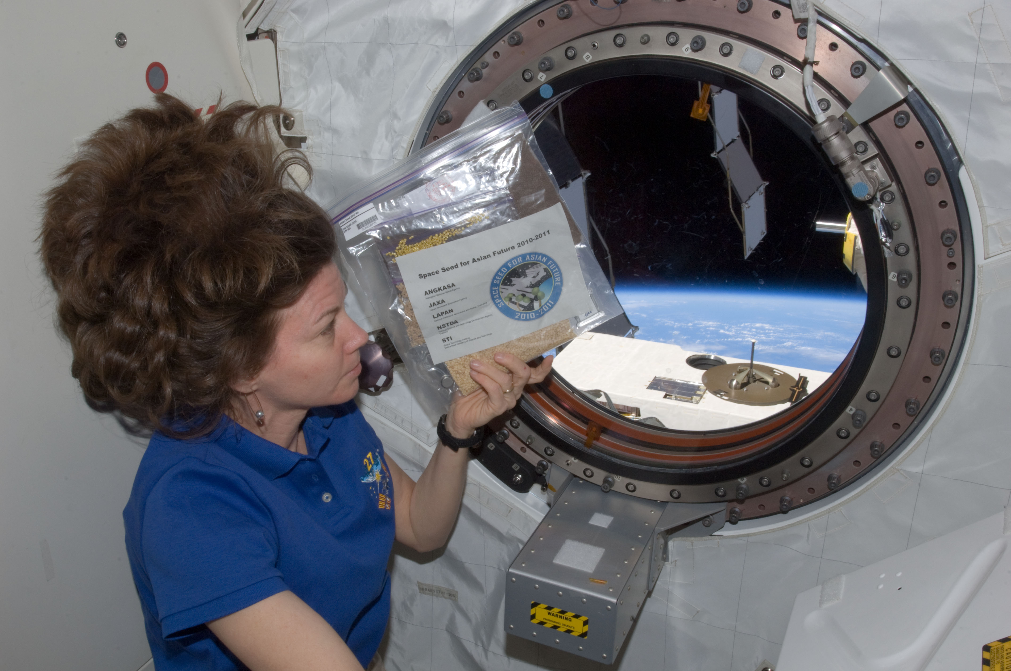 NASA astronaut Cady Coleman, Expedition 27 flight engineer, holds a bag of space seeds near a window in the Kibo laboratory of the International Space Station.